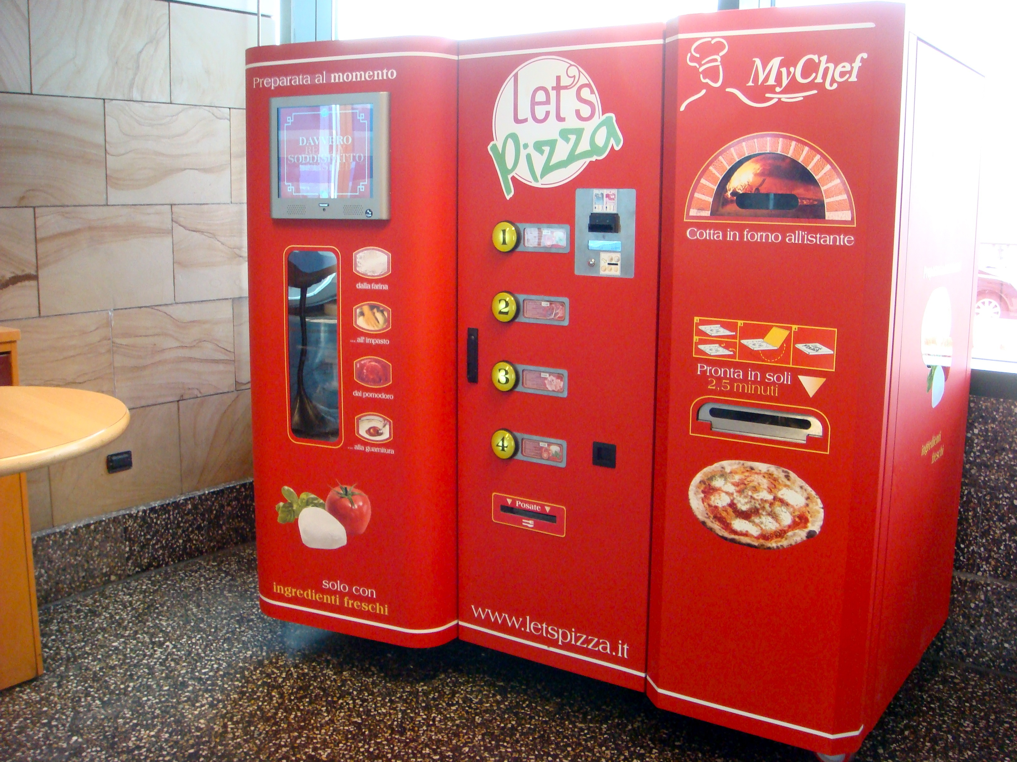 A "Let's Pizza" pizza vending machine in the Milan-Malpensa Airport in Milan, Italy.